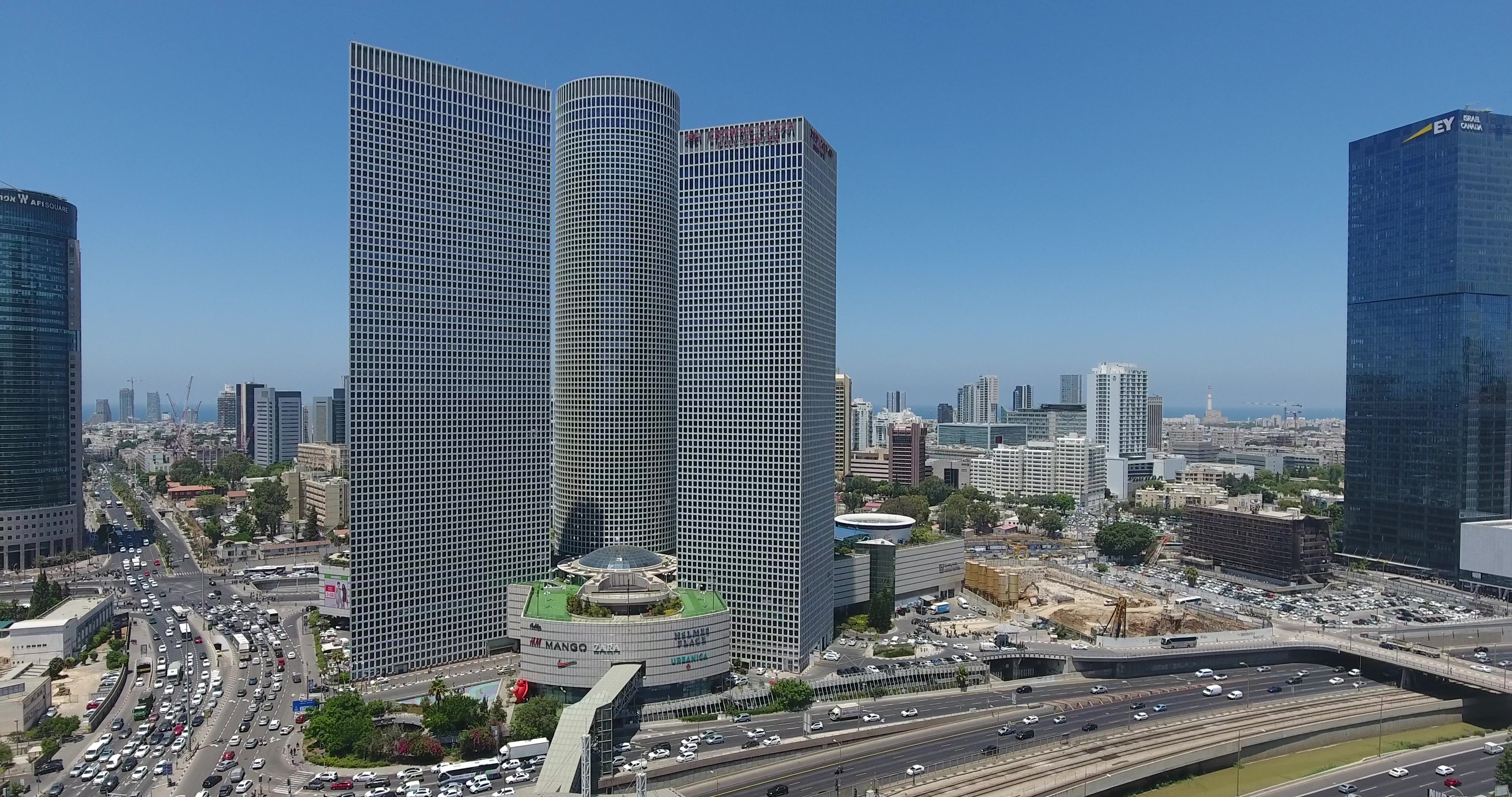 Azrieli Towers, Tel Aviv, july 2019